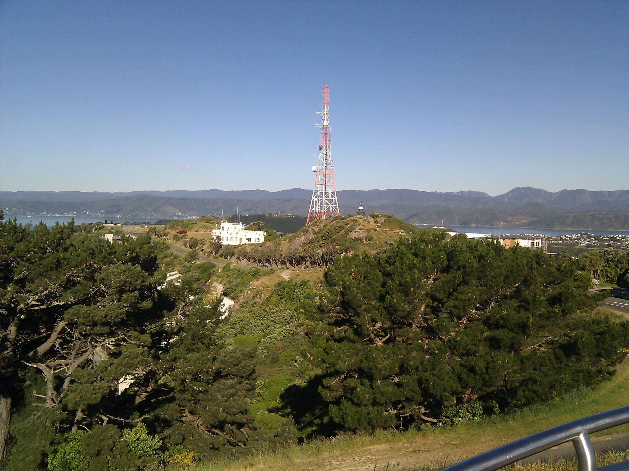 Signal tower on Mount Victoria